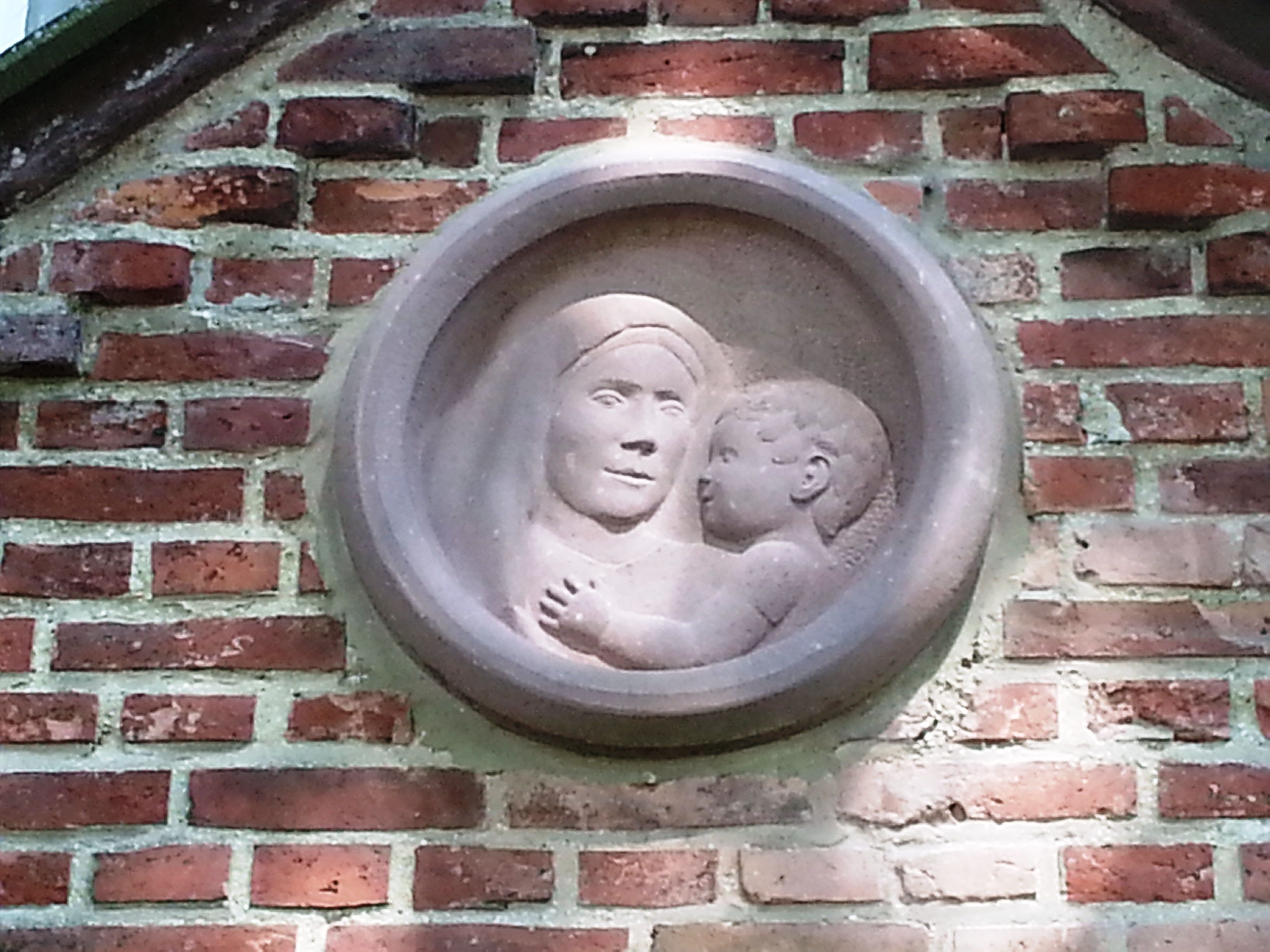 The St. Mary's Church in Himmelpforten, Lower Saxony, Germany. Medaillon in the gable above the southern entrance.